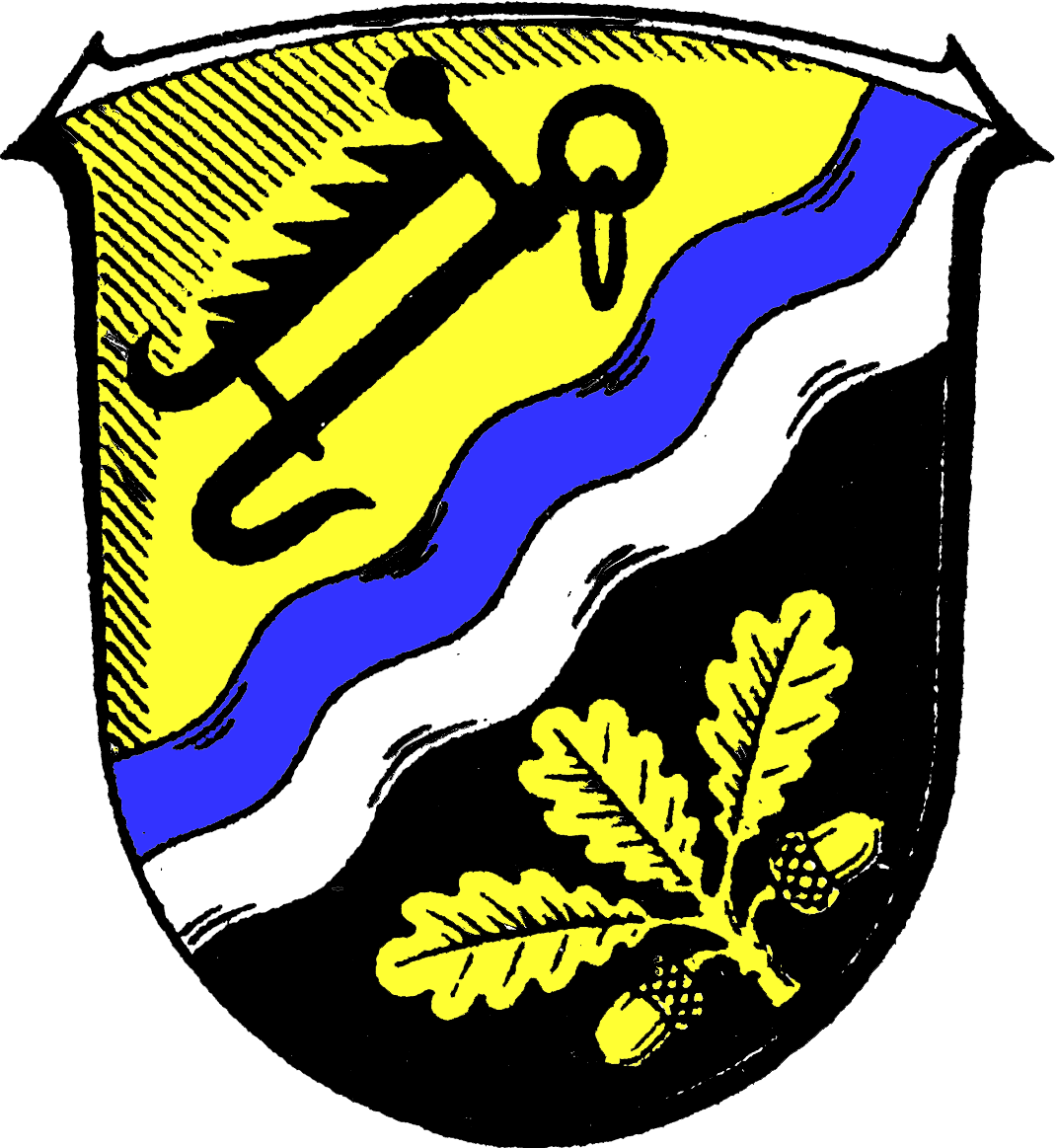 Coat of Arms of Schwalmtal